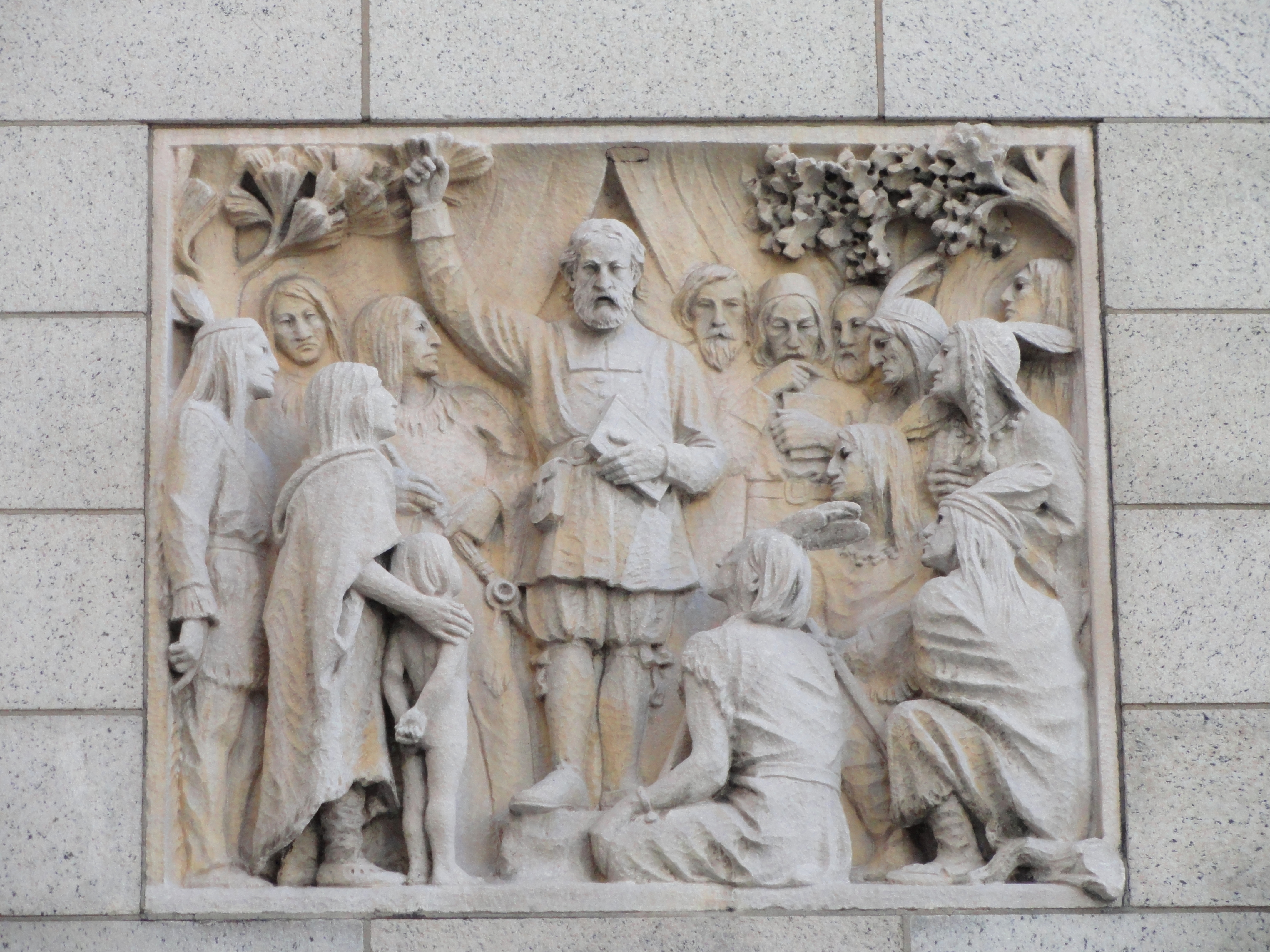 Congregational House bas-relief by Domingo Mora (1840-1911), on the front facade of the Congregational House, 14 Beacon Street, Boston, Massachusetts, USA. This artwork is in the public domain because the artist died more than 70 years ago.